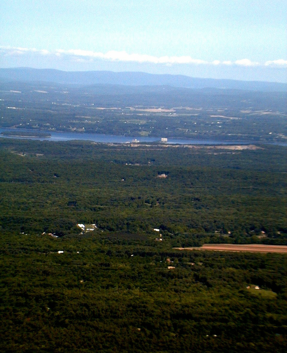 View from the Catskill Mountain House site at North-South Lake in the Catskills. Taken by User:Mwanner, 21 May, 2005.